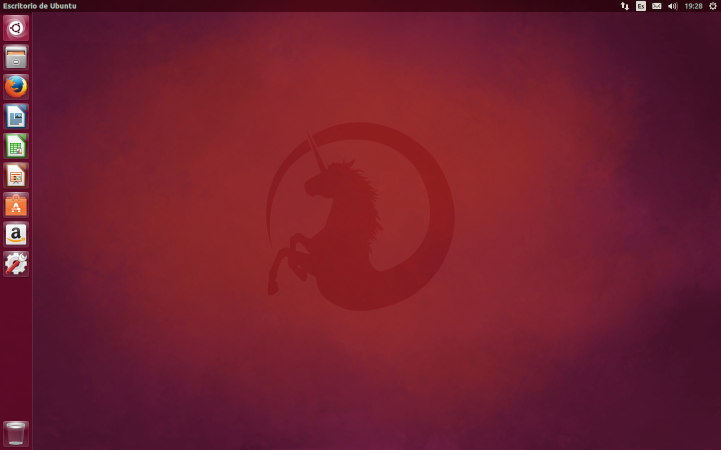 Ubuntu 14.10